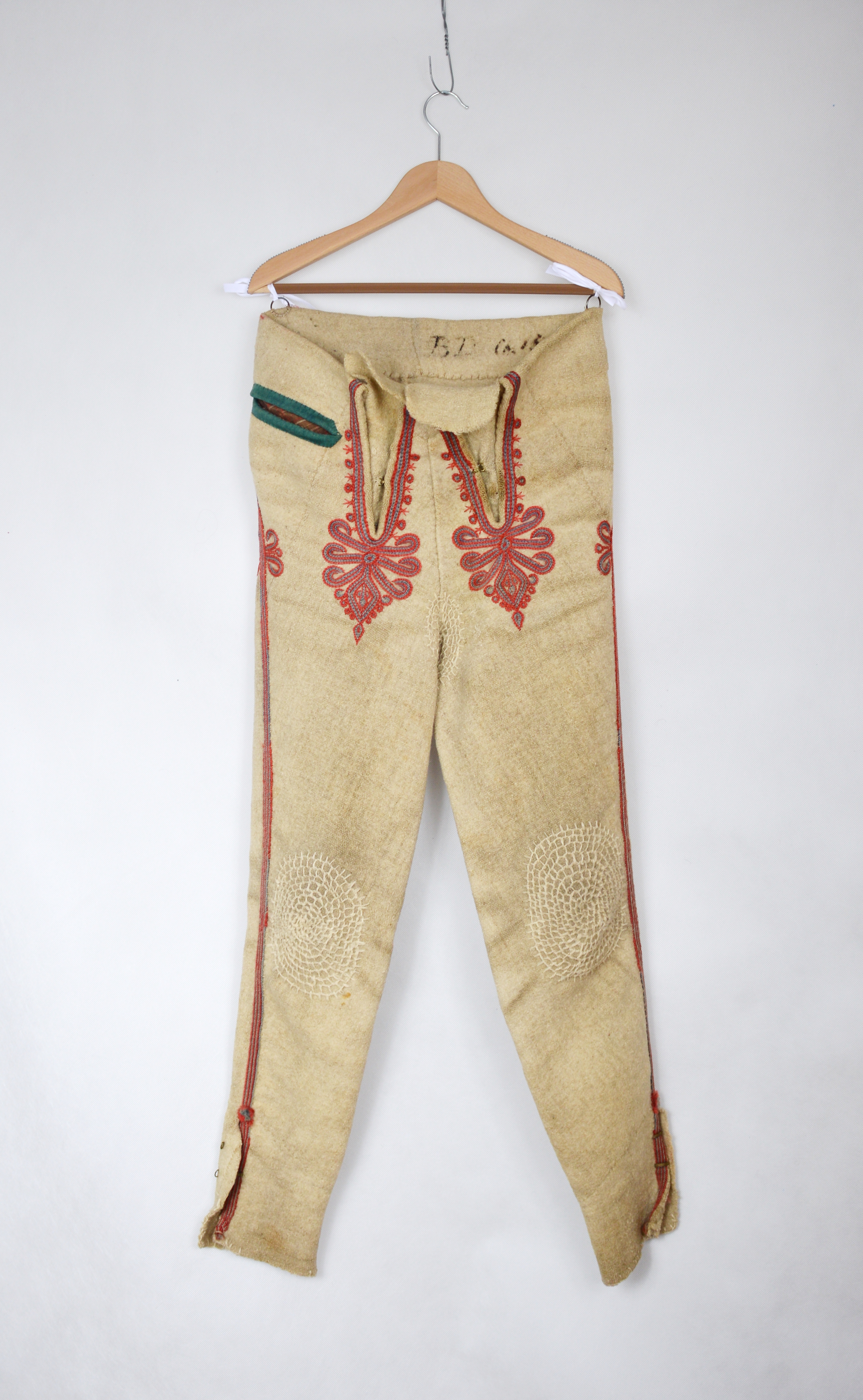 Podhale highlanders' trousers, XIXth century, Tatra Museum in Zakopane